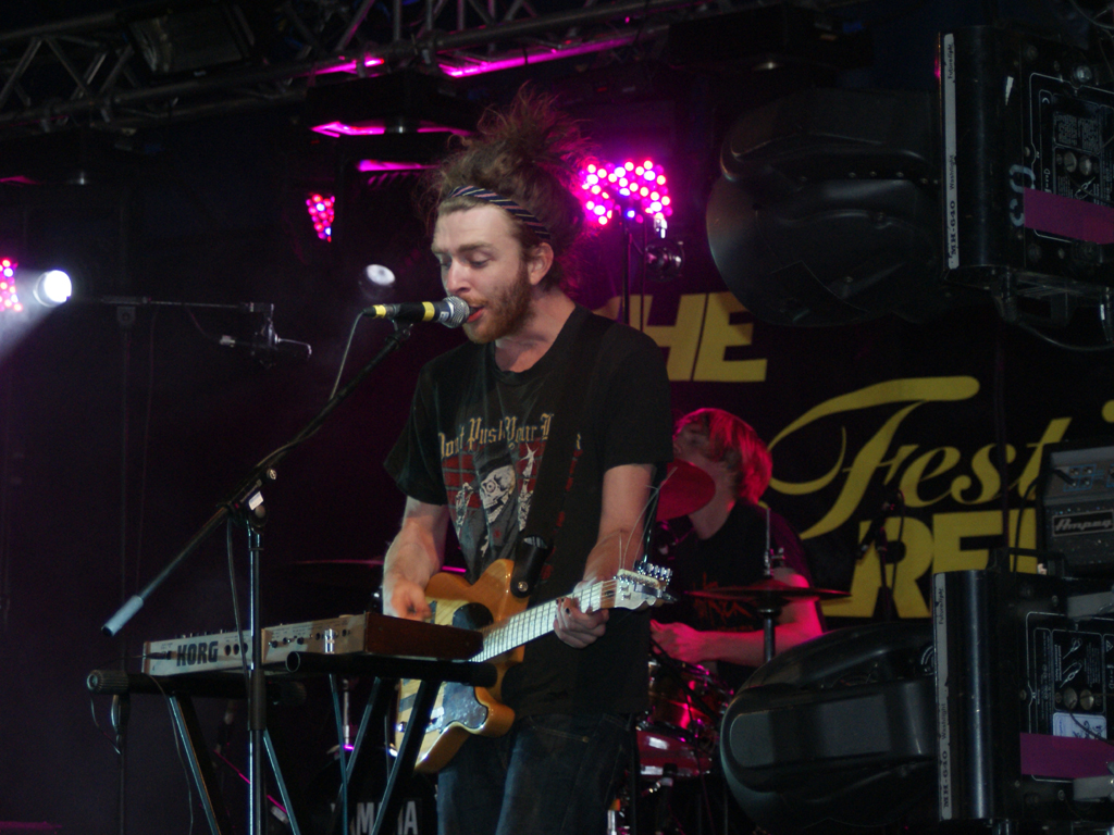 bear hands @ leeds festival 2009